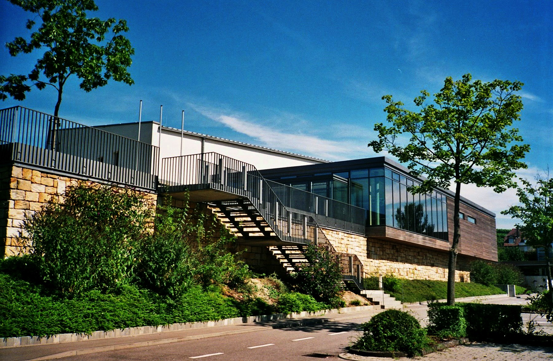 Flein_Sandberghalle_Neubau.JPG